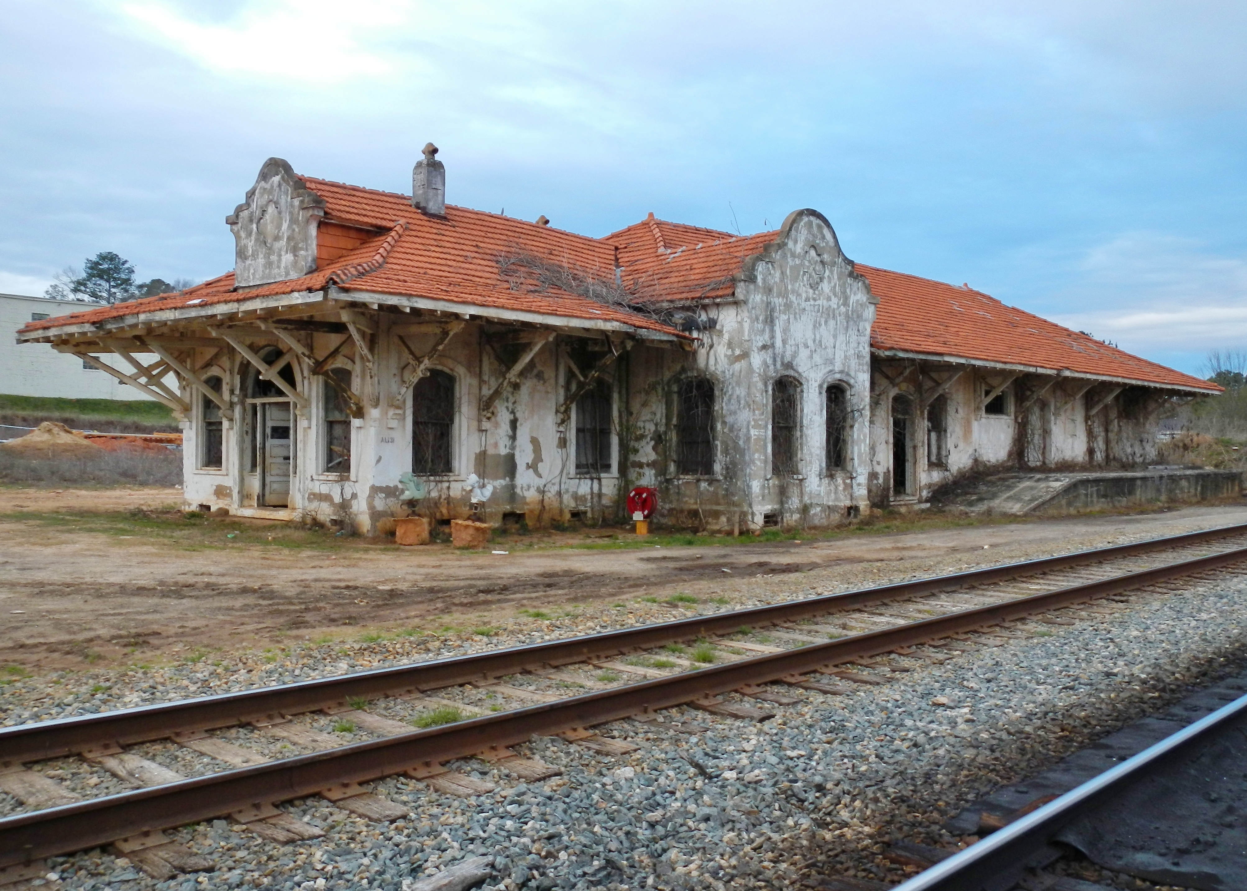 This is a photograph of the Wadley Railroad Depot in Wadley, Alabama. It was added to the National Register of Historic Places on July 14, 2011.